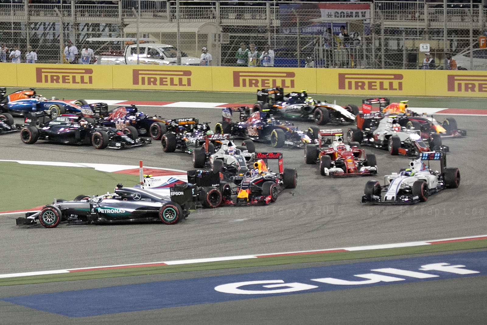 Start at the 2016 Bahrain Grand Prix